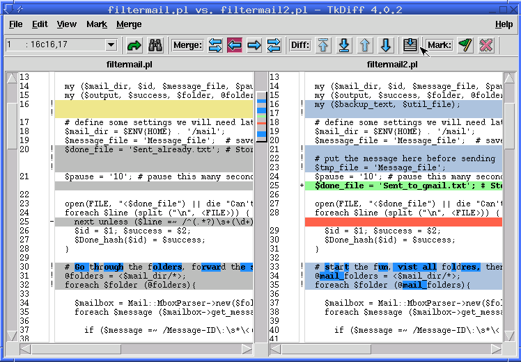 Screenshot of Tkdiff